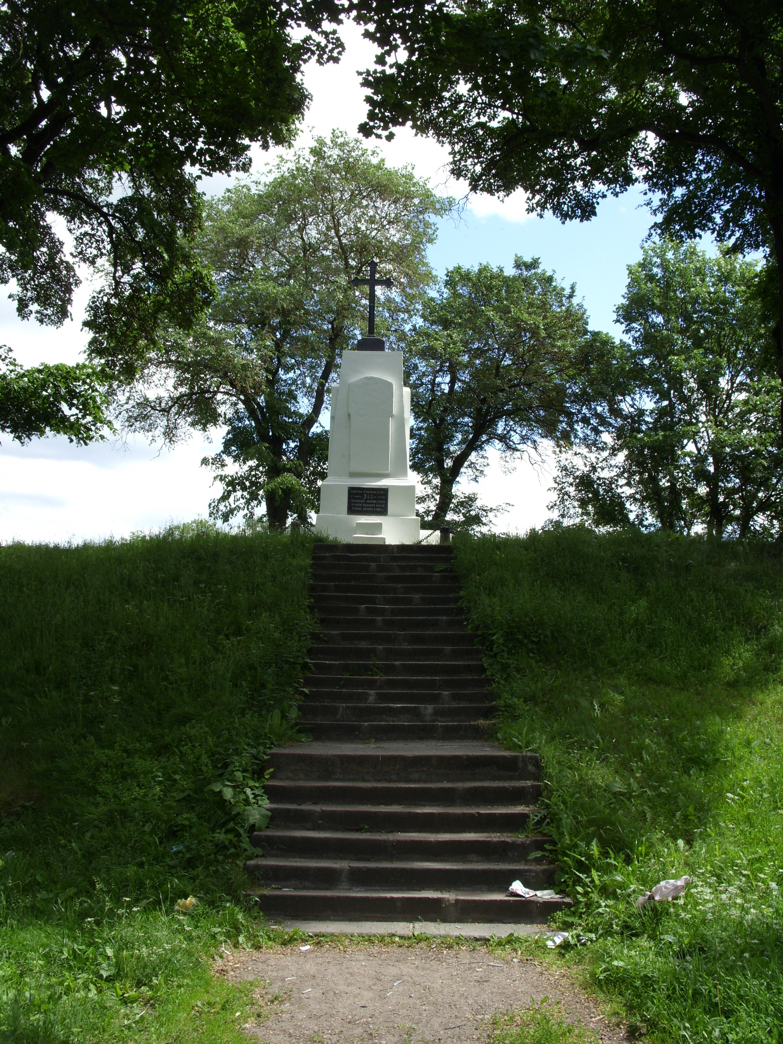 300-letie_Oborony_2010-1